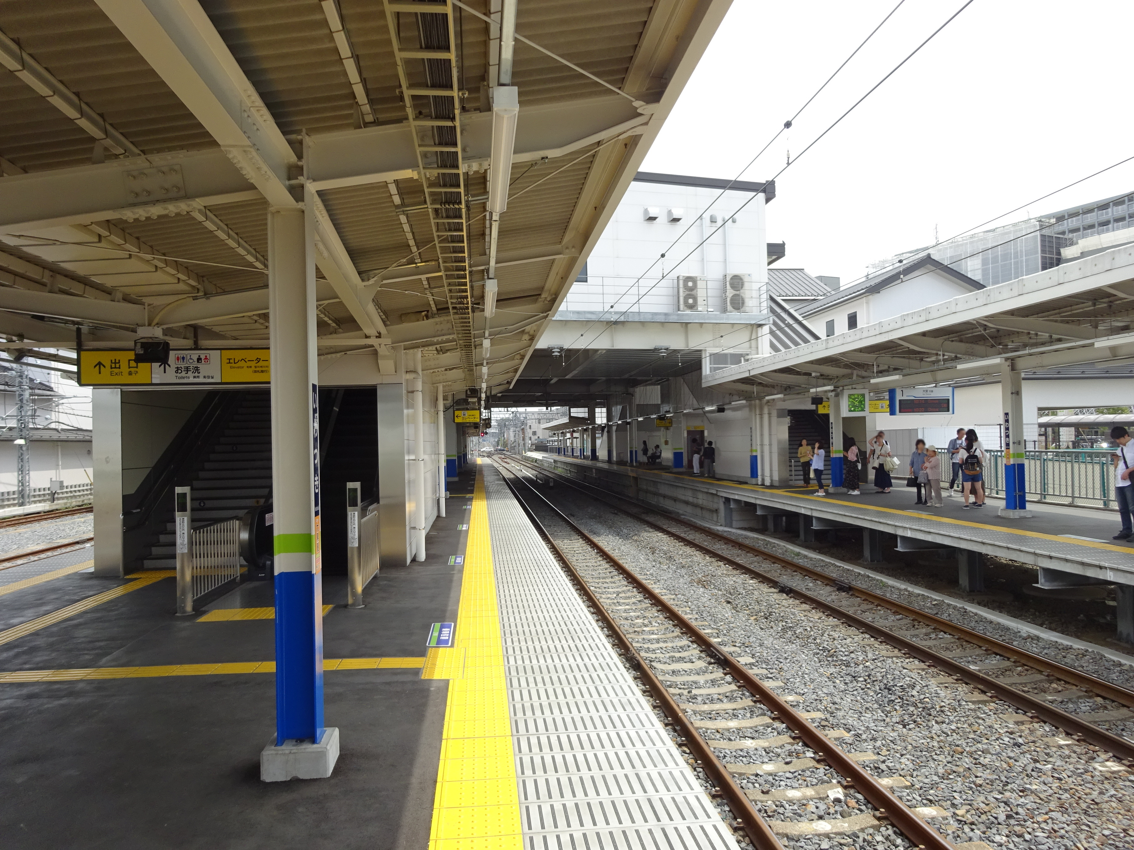 Platforms of Iwatsuki Station